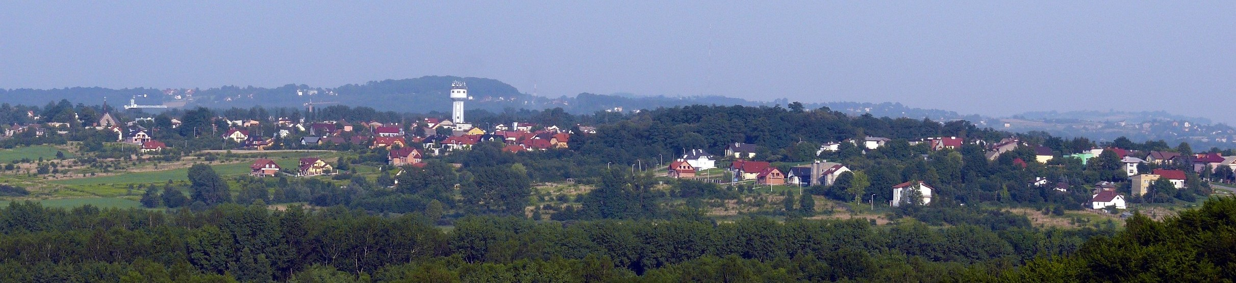 A view of southern part Skotniki neighbourhood in Kraków.